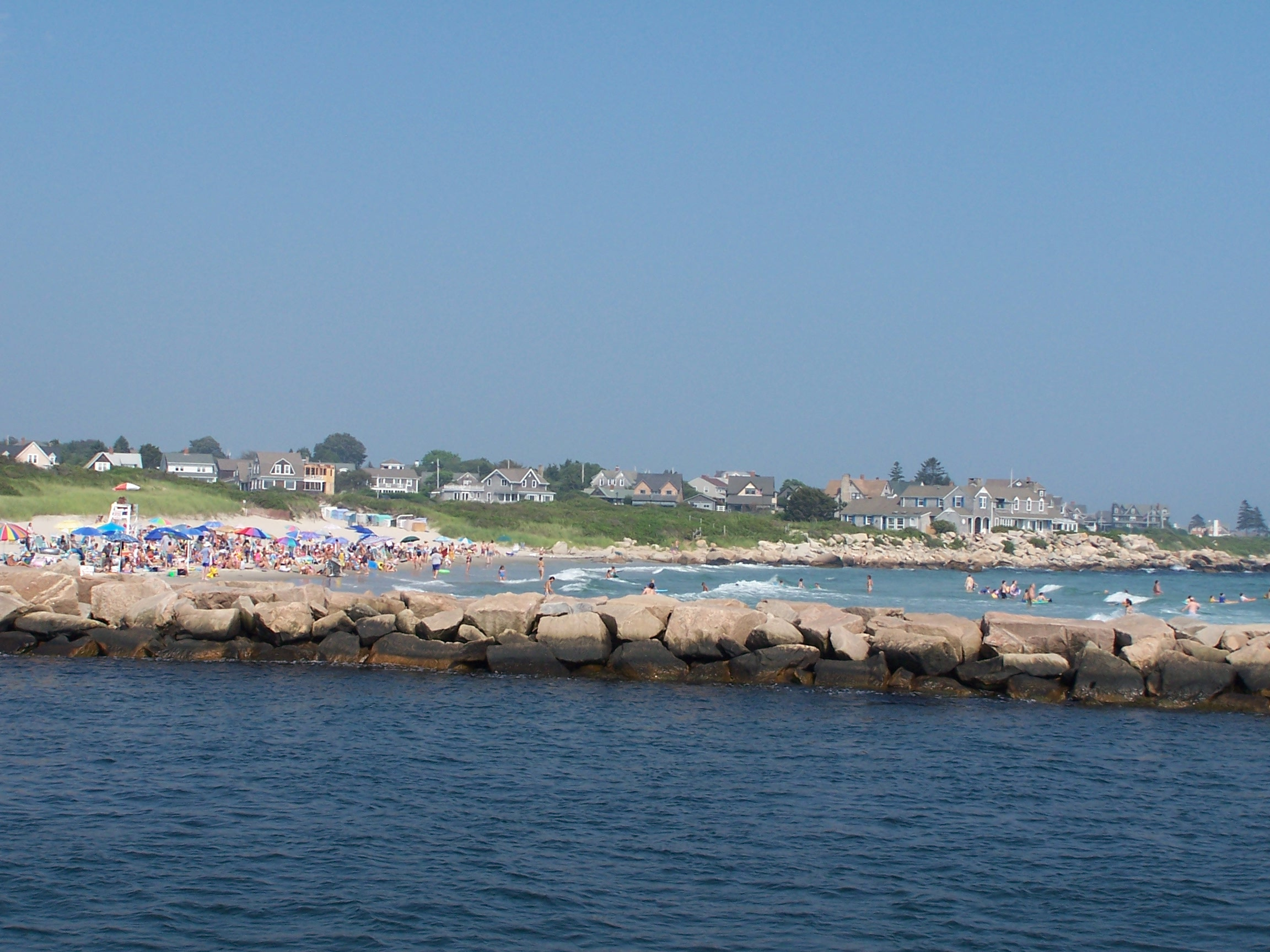 A photo of Weekapaug showing the jetties, channel, and breachway leading to Winnapaug Pond. The photo was taken on 8/2/06 by Mark Siciliano.